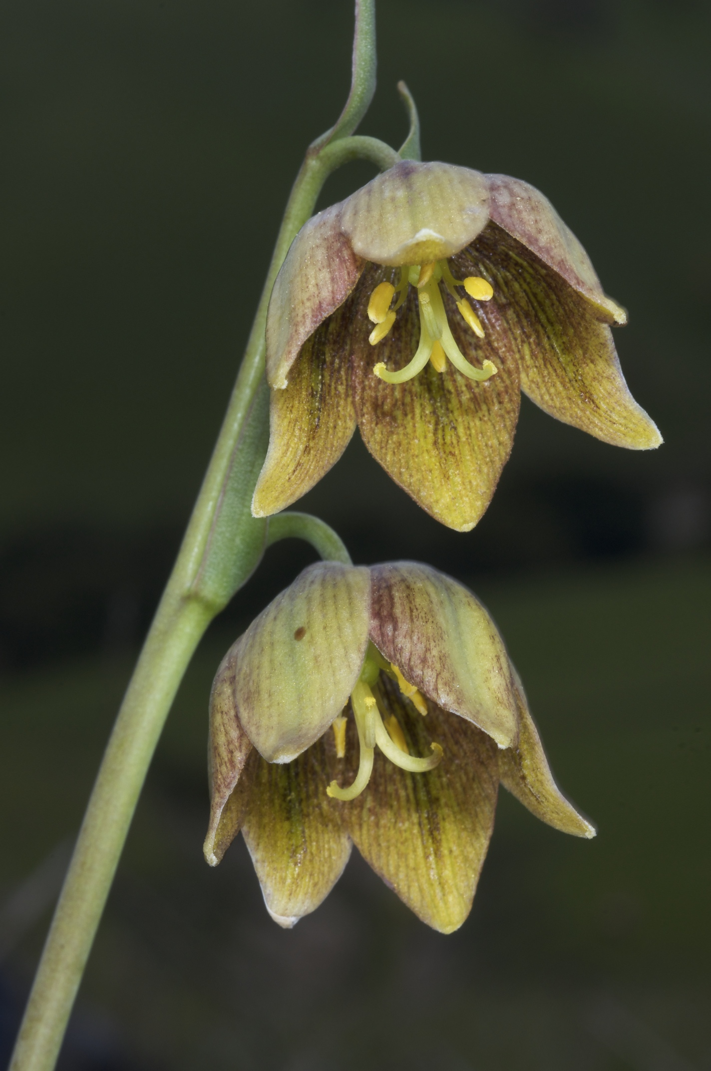 Species from California Common name: Stinkbells Photographed along Tesla Road, Alameda County, California CNPS Inventory of Rare and Endangered Plants - list 4.2